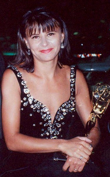 Emmy-winner Tracey Ullman at the Governor's Ball held immediately after the 1990 Emmy Awards 9/16/90